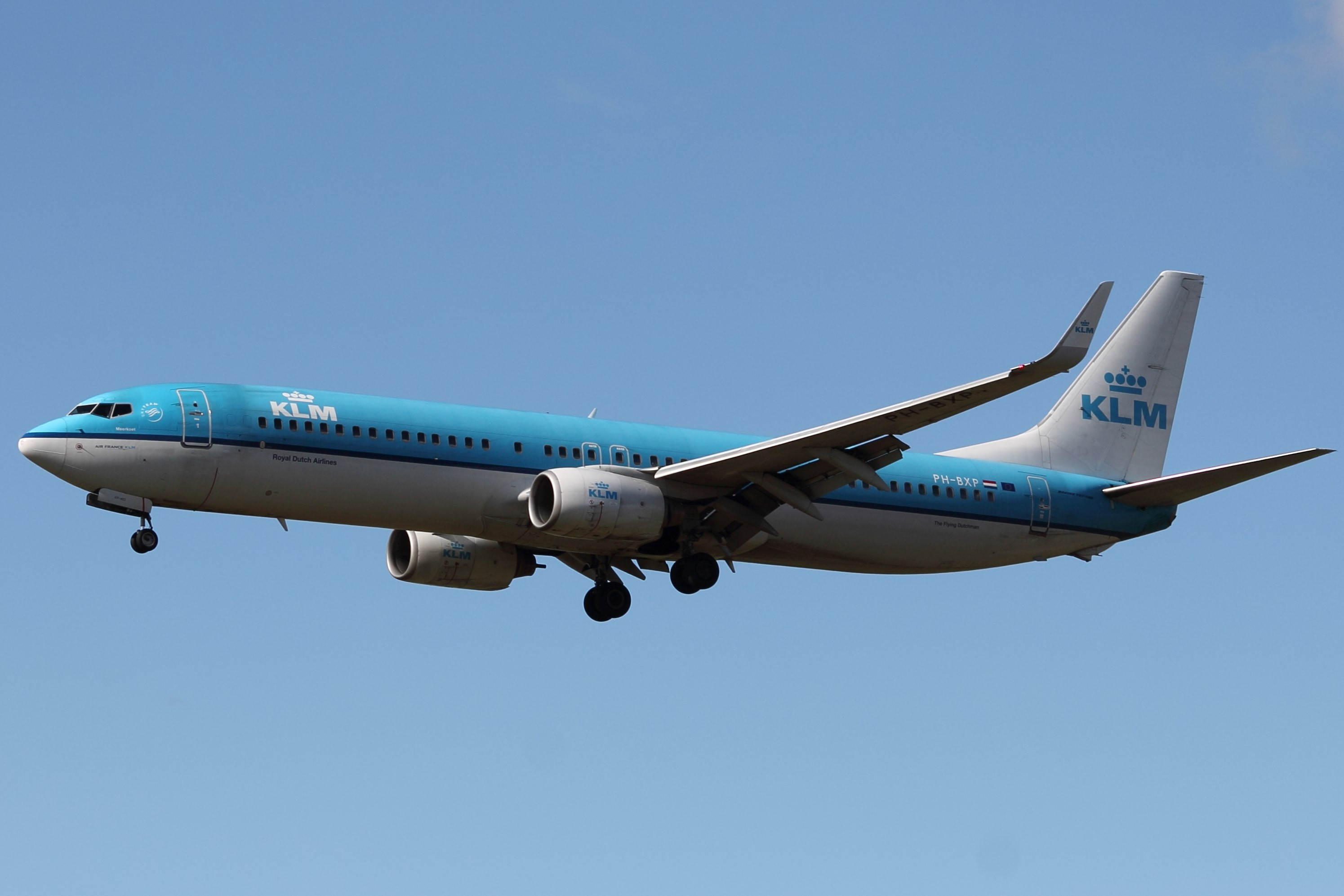 KLM Boeing 737 landing at Newcastle airport.